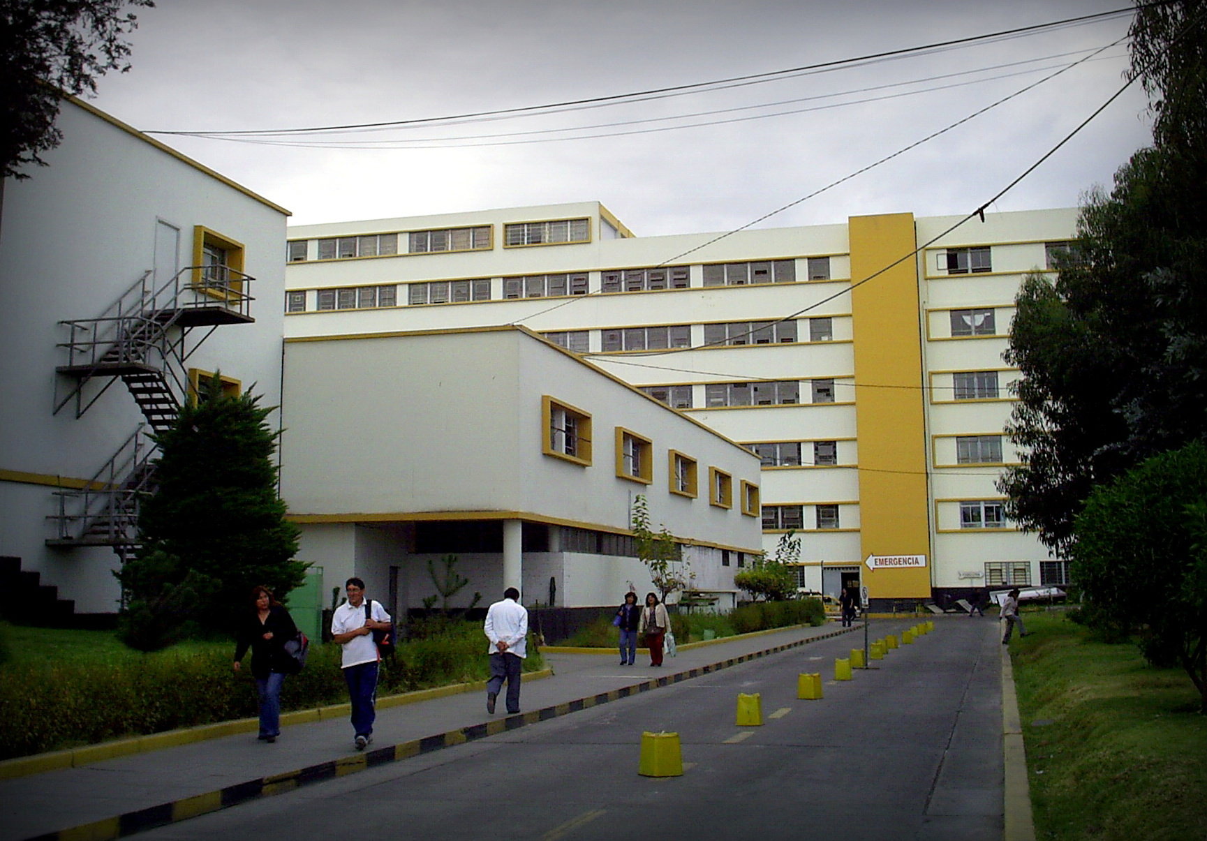 General Hospital Honorio Delgado Hespinoza